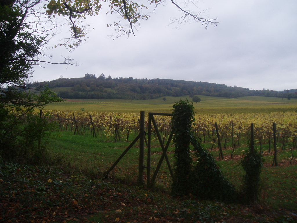 Created by Ojw while surveying for OpenStreetMap